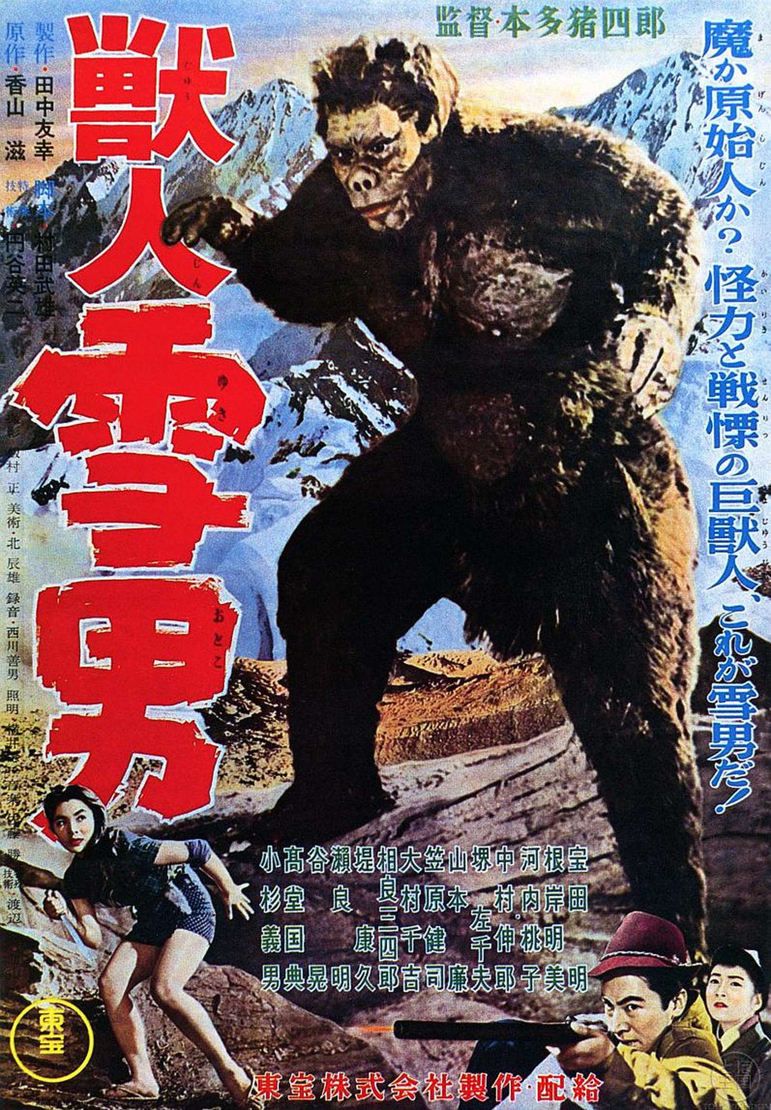 Movie poster for 1955 Japanese film Half Human (獣人雪男, Jujin Yuki Otoko, lit. "Monster Snowman") (Zoku shishunki).